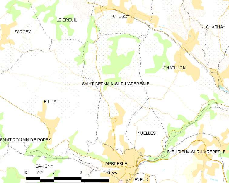 Map of French municipality